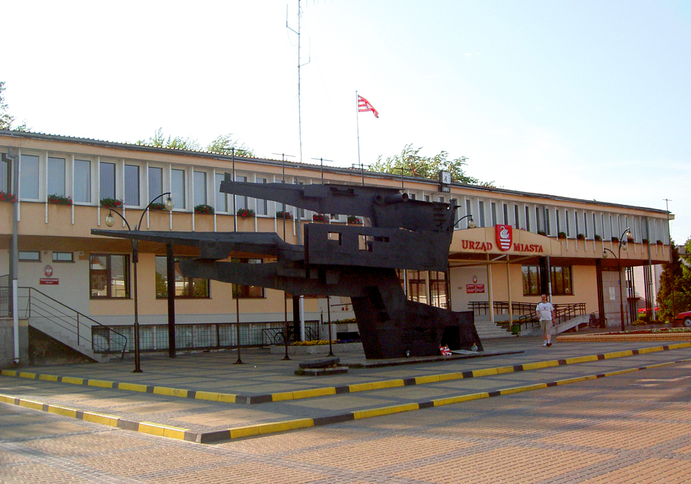 City Council in Biłgoraj, Poland